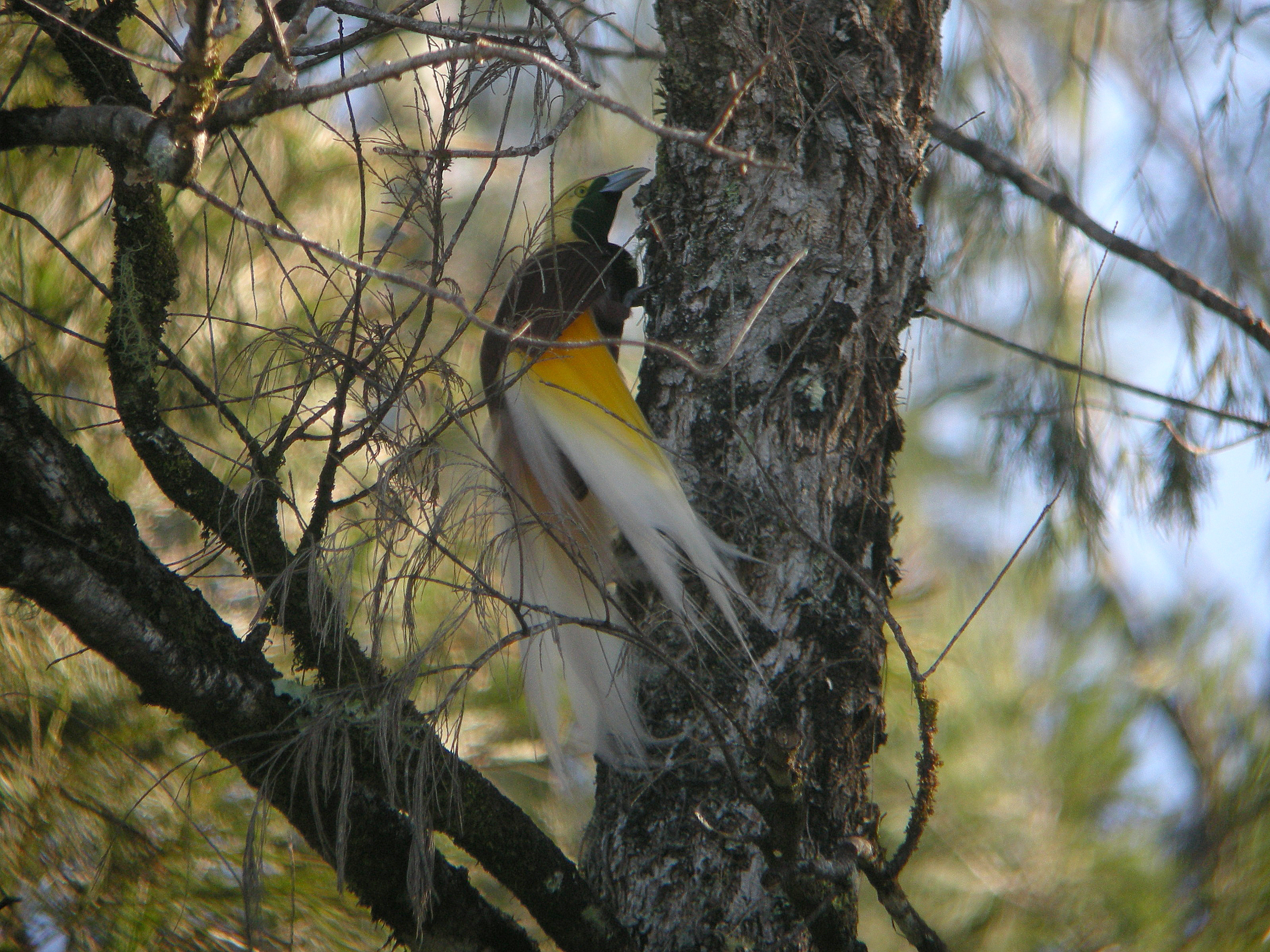 Lesser Bird of Paradise in Papua New Guinea.